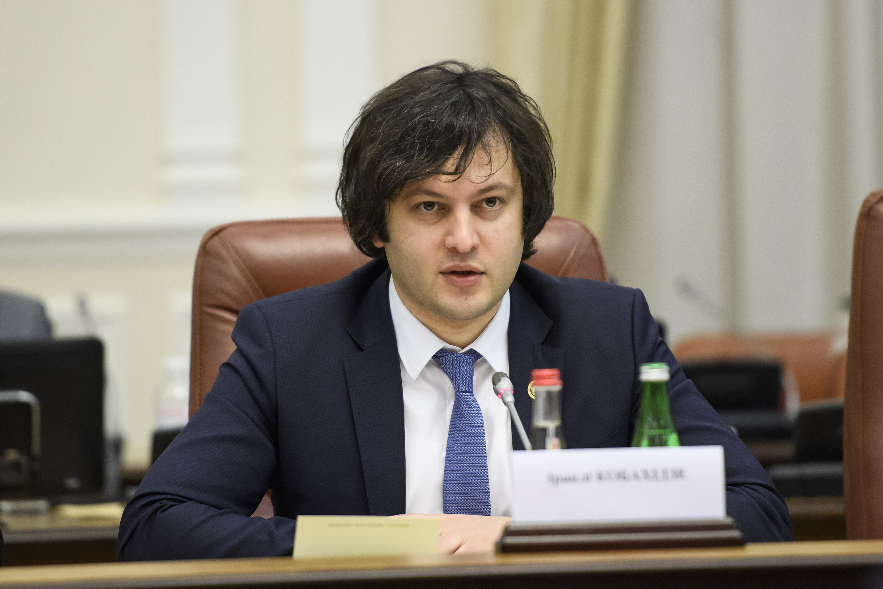 Прем’єр-міністр України Володимир Гройсман зустрівся зі Спікером Парламенту Грузії Іраклі Кобахідзе